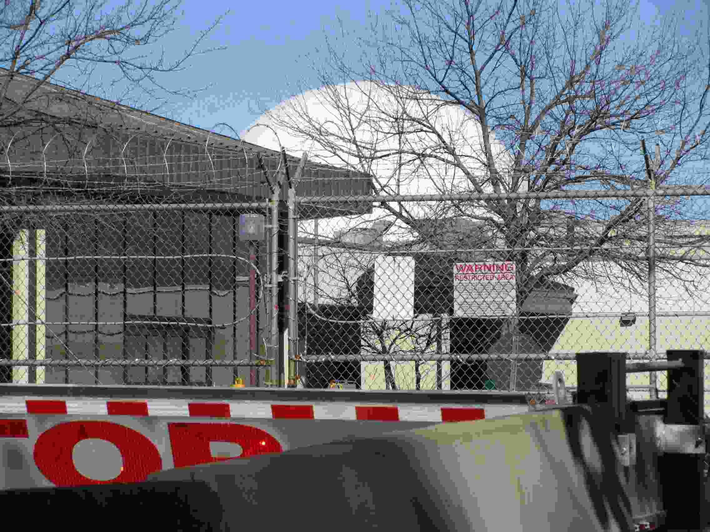 A view of the Area 58 DCEETA south radome from Woodlawn road facing northeast.